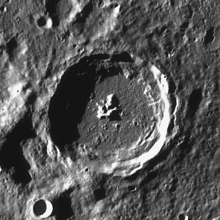 Lyman lunar crater - LROC image